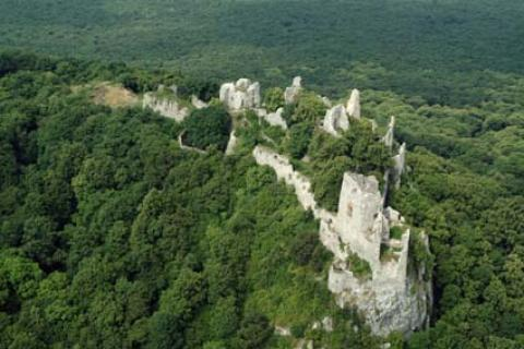 Gýmeš Castle, Slovakia, aerialphotography to 403-1443/22